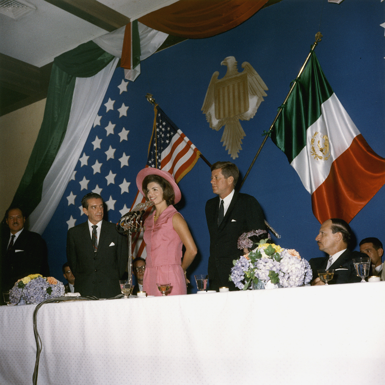 President and Mrs. Kennedy in Mexico City, 30 June 1962 Mexico City, Mexico, Hotel Maria Isabel